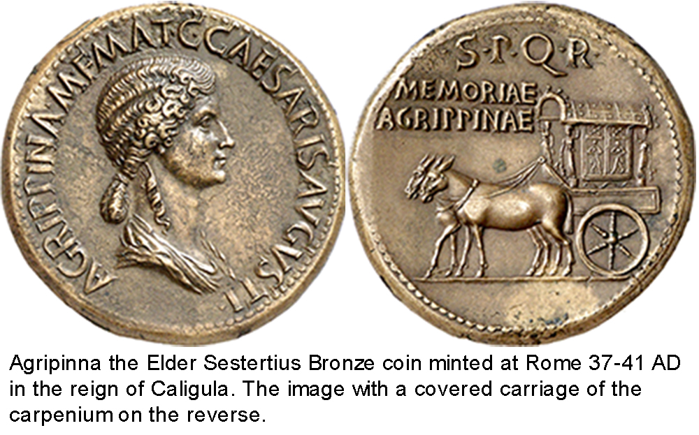 Roman Bronze Coin ex Moreti Collection